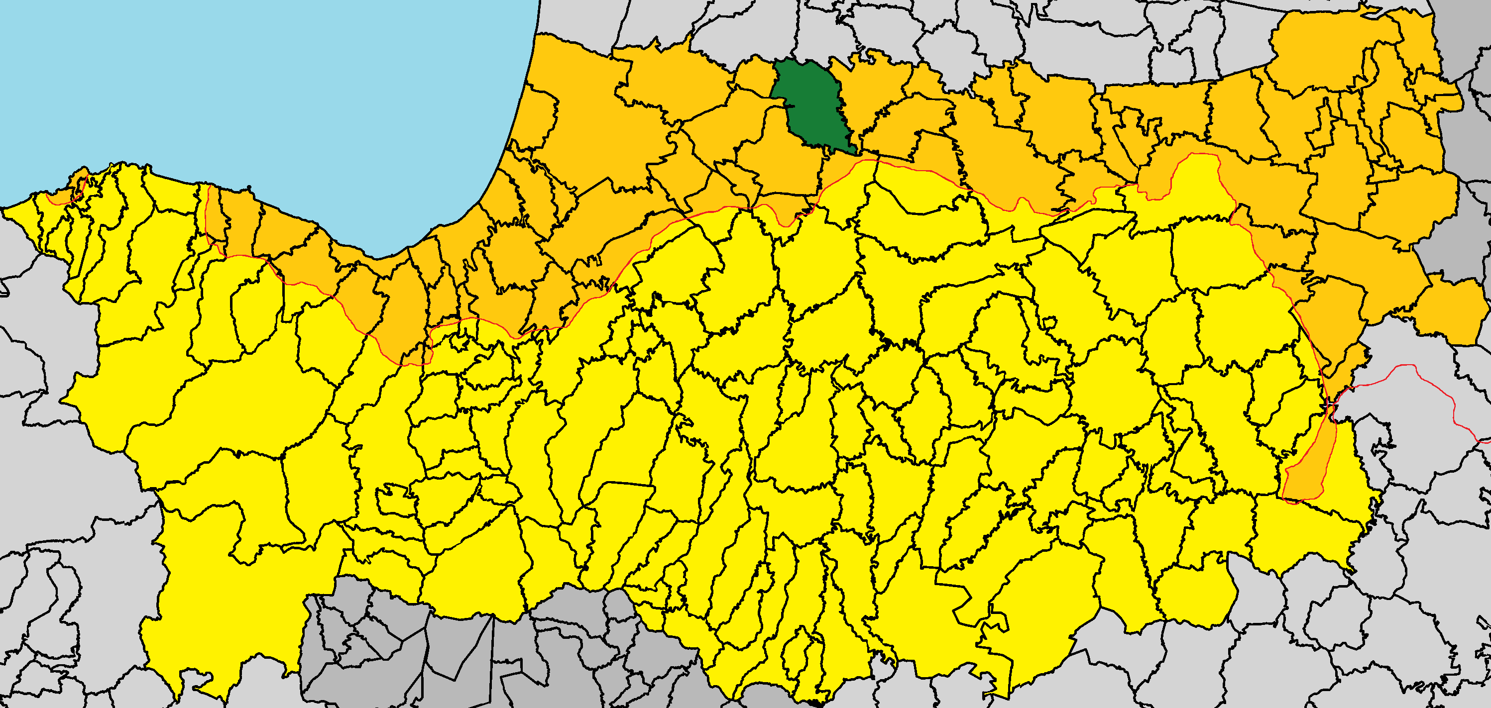 Agia Marina in Nicosia District (de jure).